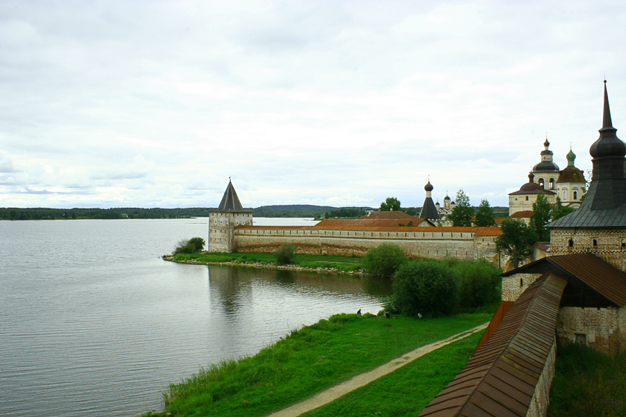 View of the Kirillo-Belozersky Monastery and the lake from one of the towers.